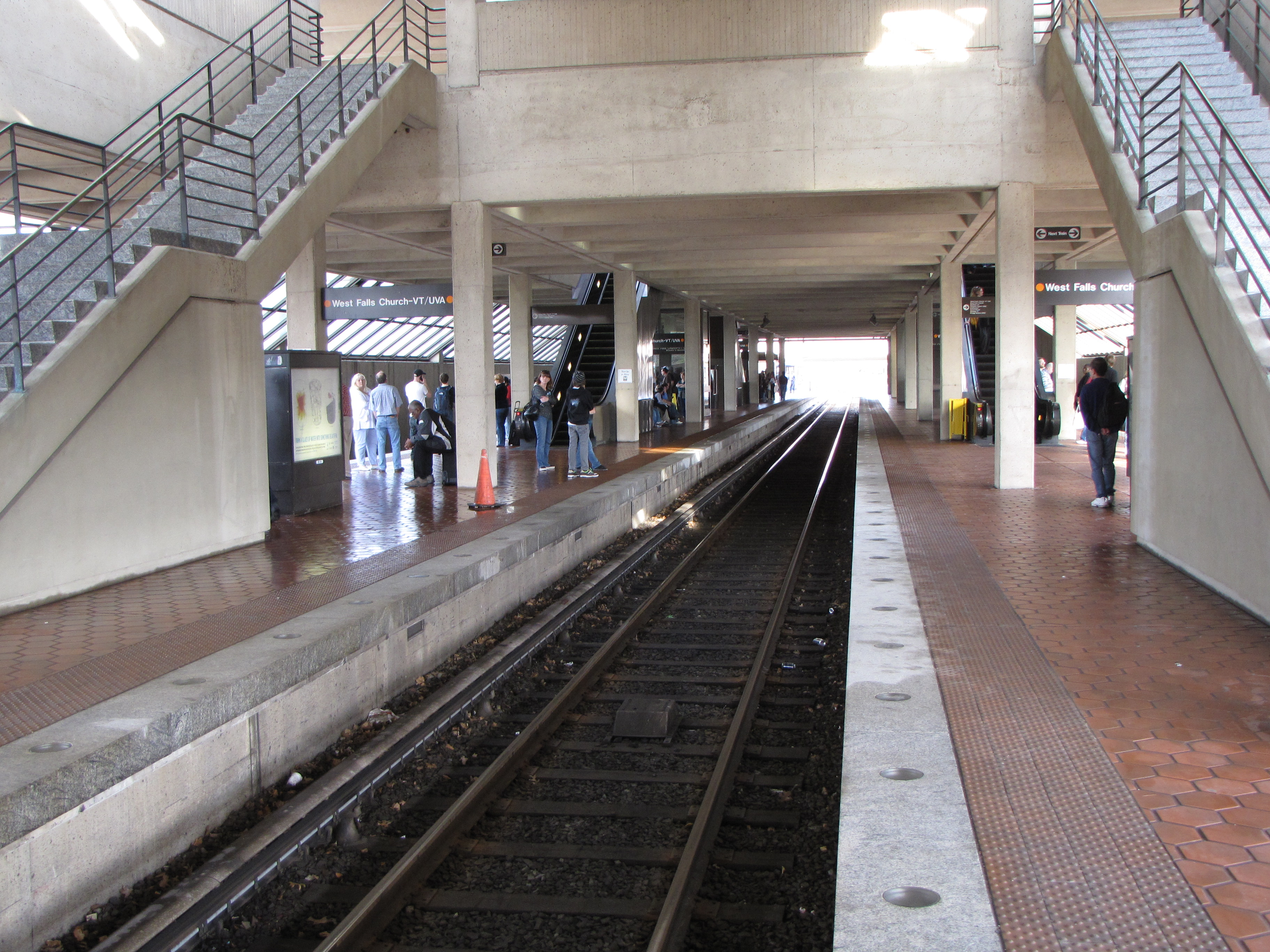 West Falls Church station as seen from near the outbound end of the platform, facing inbound.